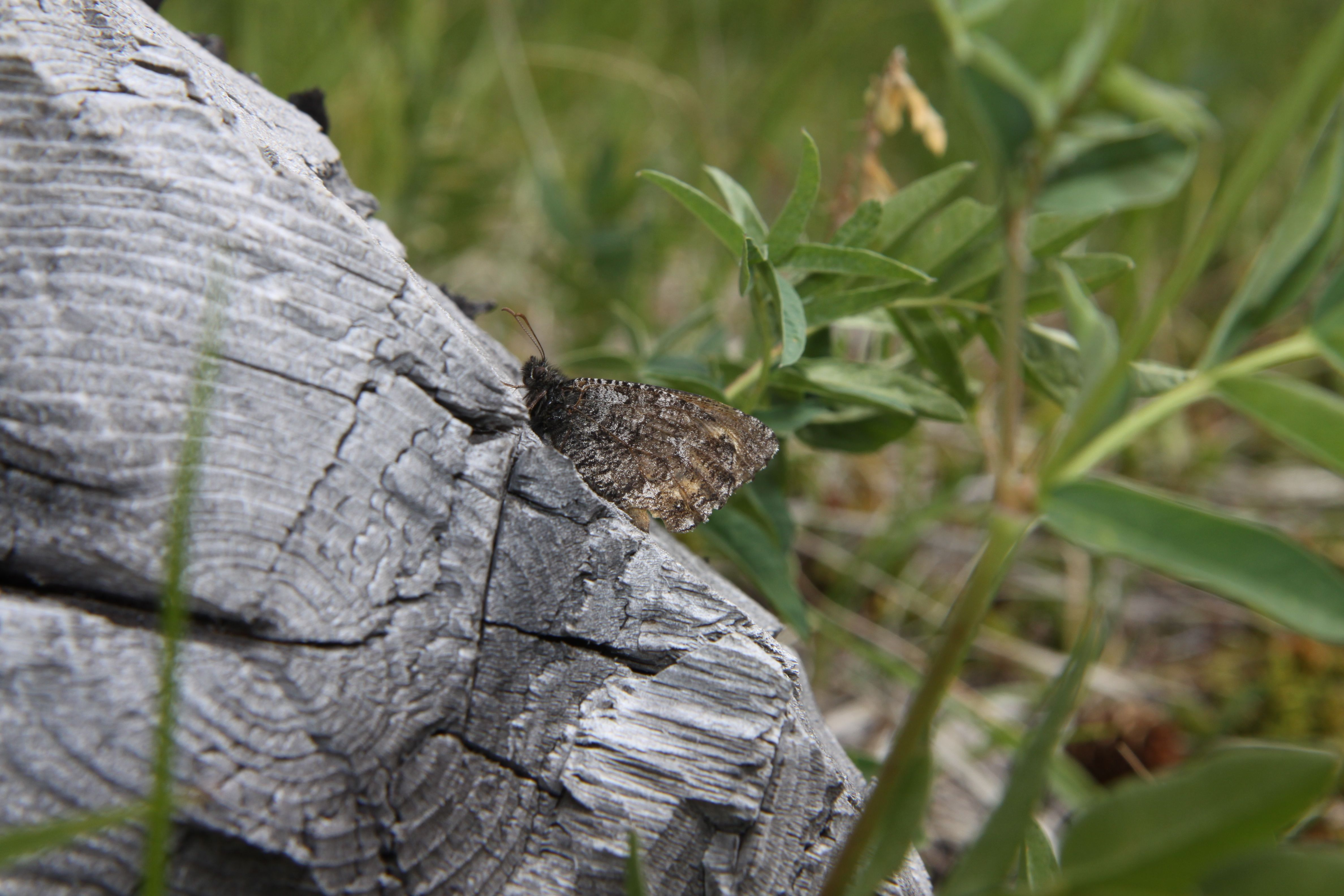 near Red Deer Lakes, Banff National Park